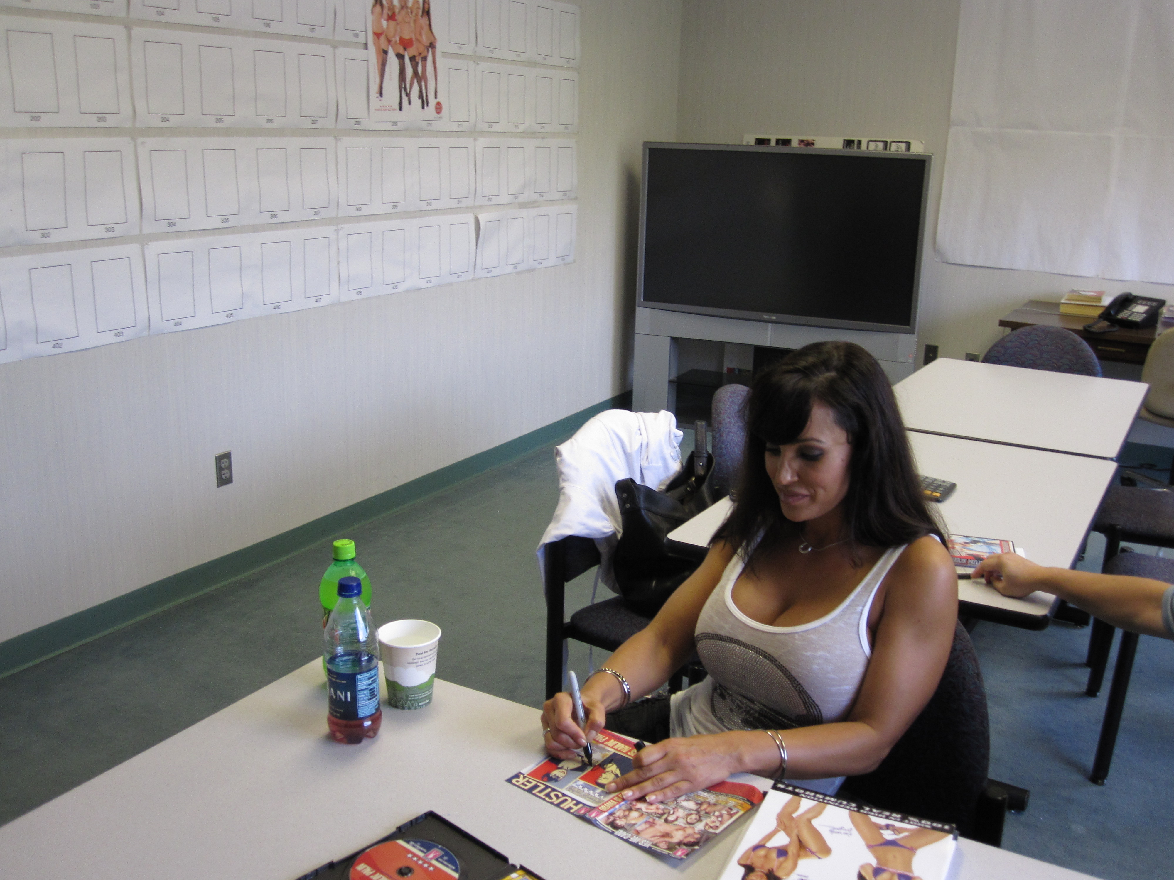 Lisa Ann at Adam and Eve home office signing.